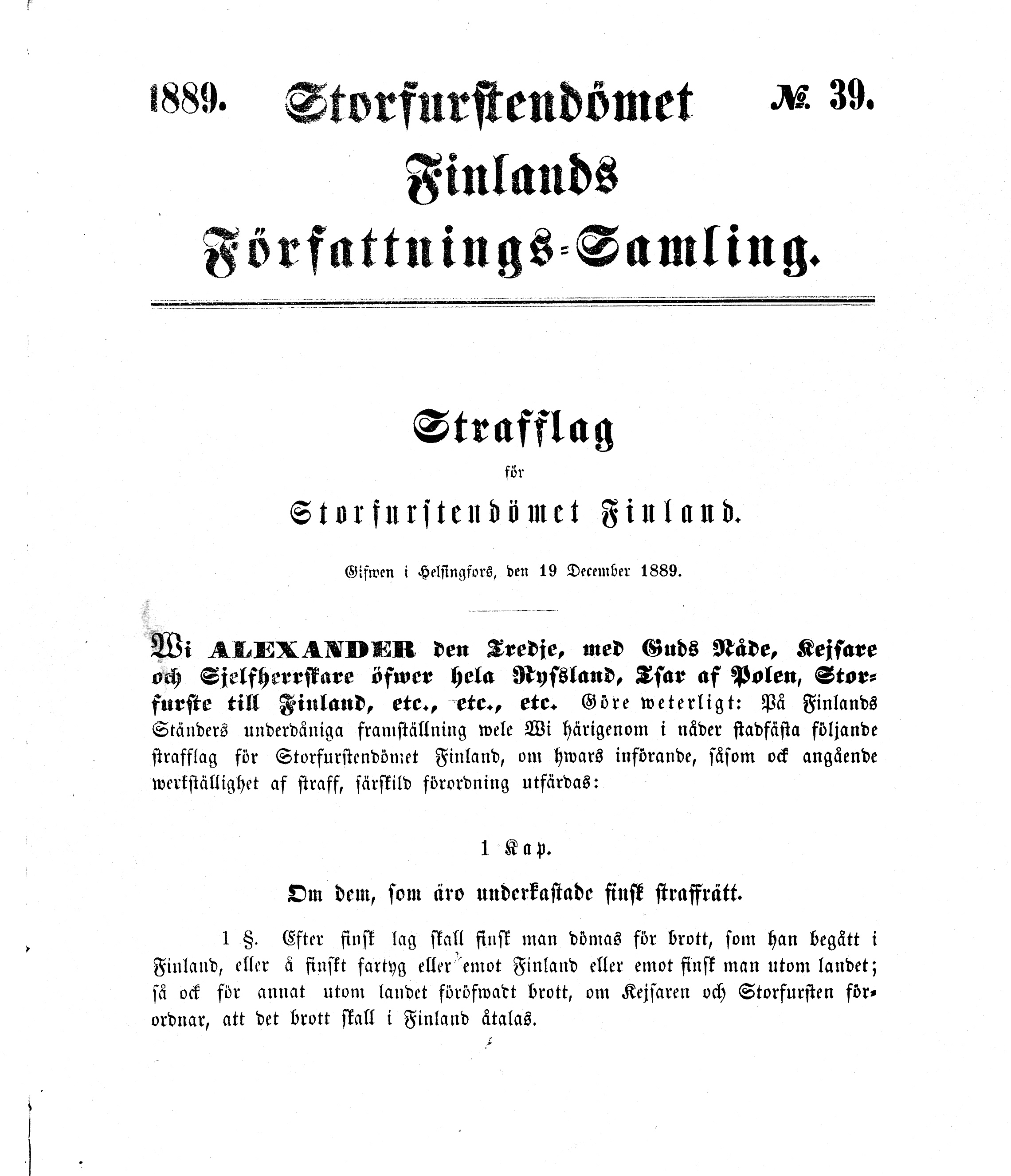 The first page of Finland's Criminal Code from 1889 in Swedish.